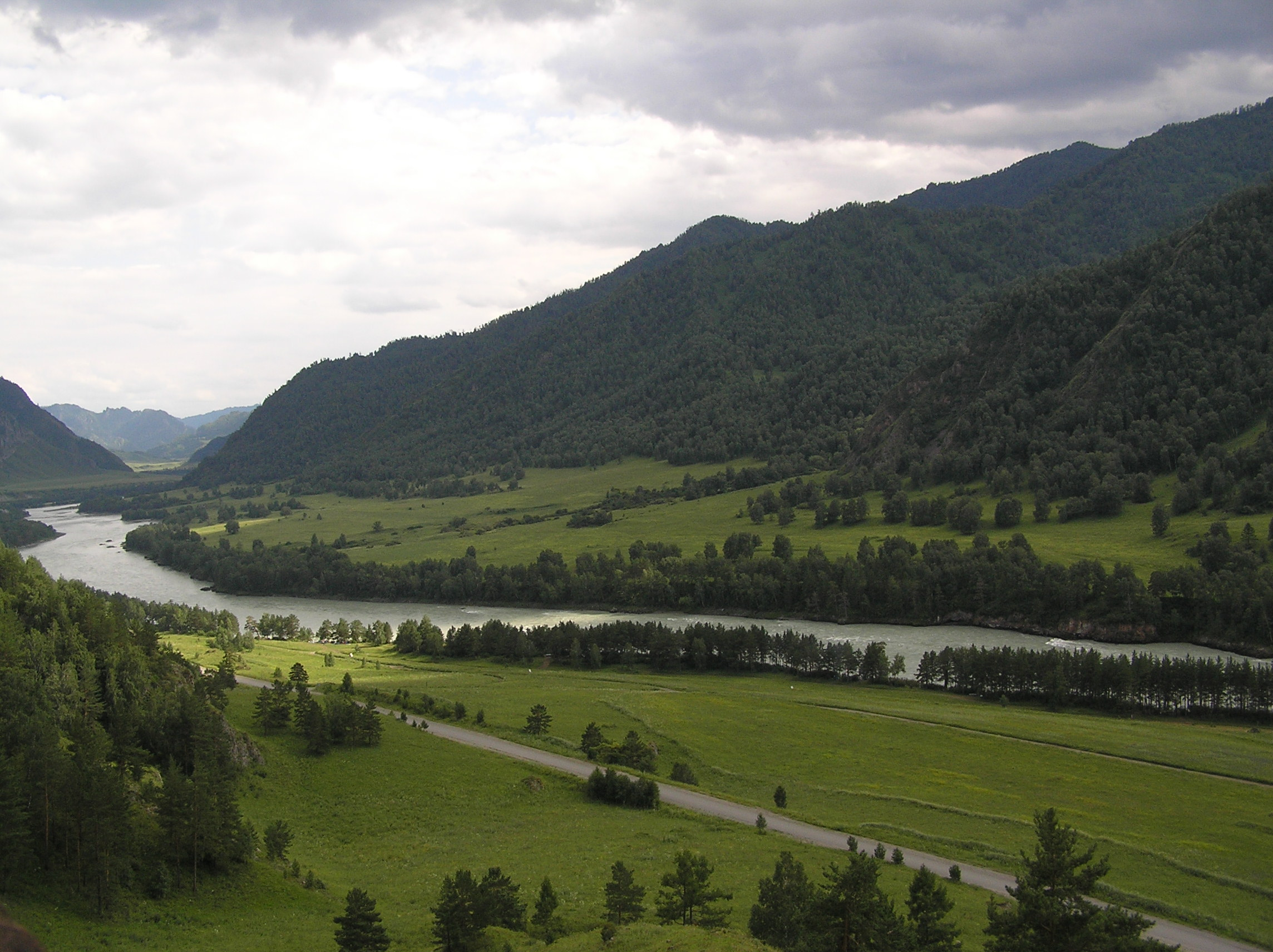 River Katun in Chemalsky District, Altai Republic, Russia